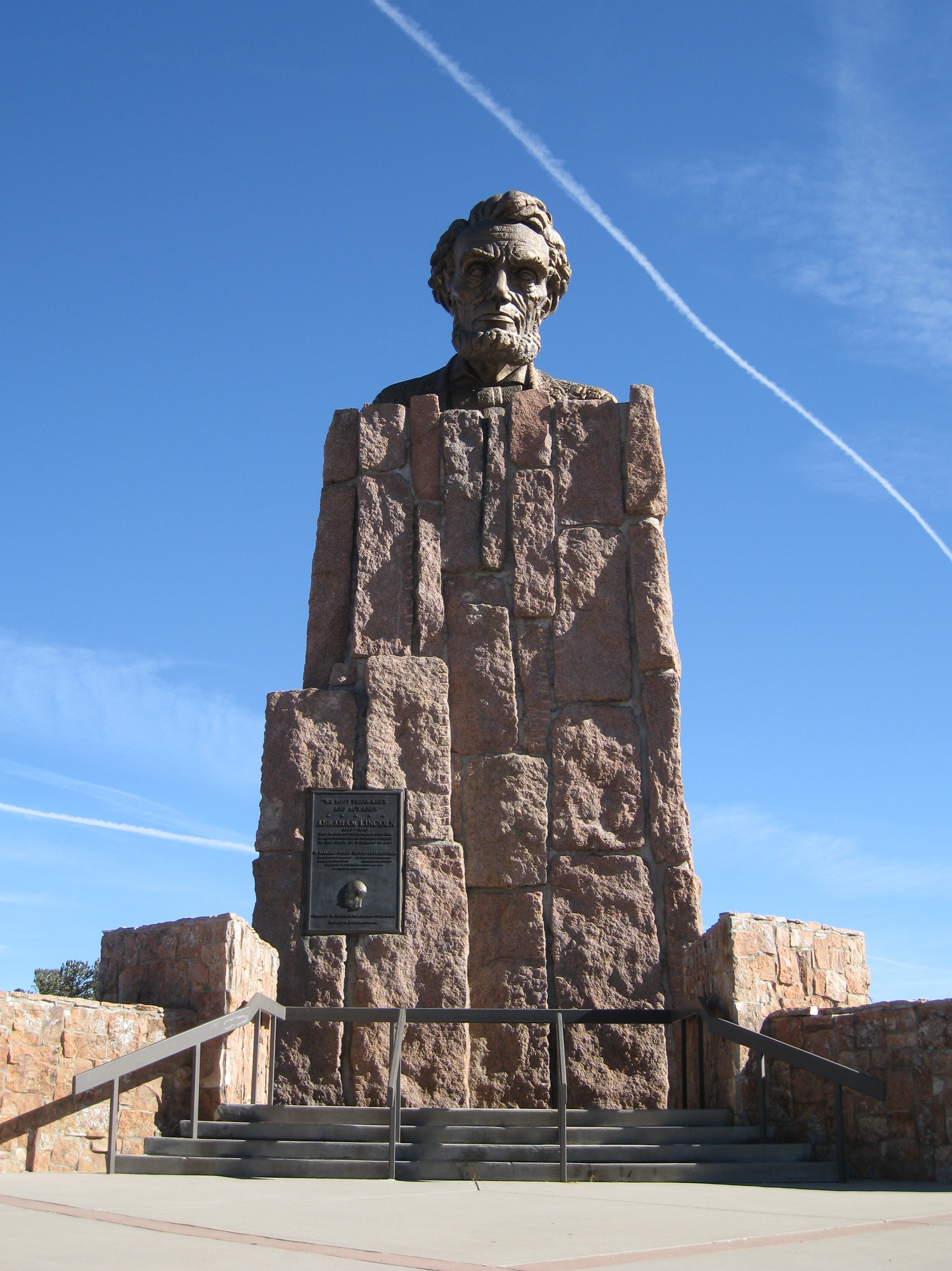 Bust of Abraham Lincoln at the highest point on the Lincoln Highway, on U.S. Interstate 80 between Cheyenne, WY, and Laramie, WY.